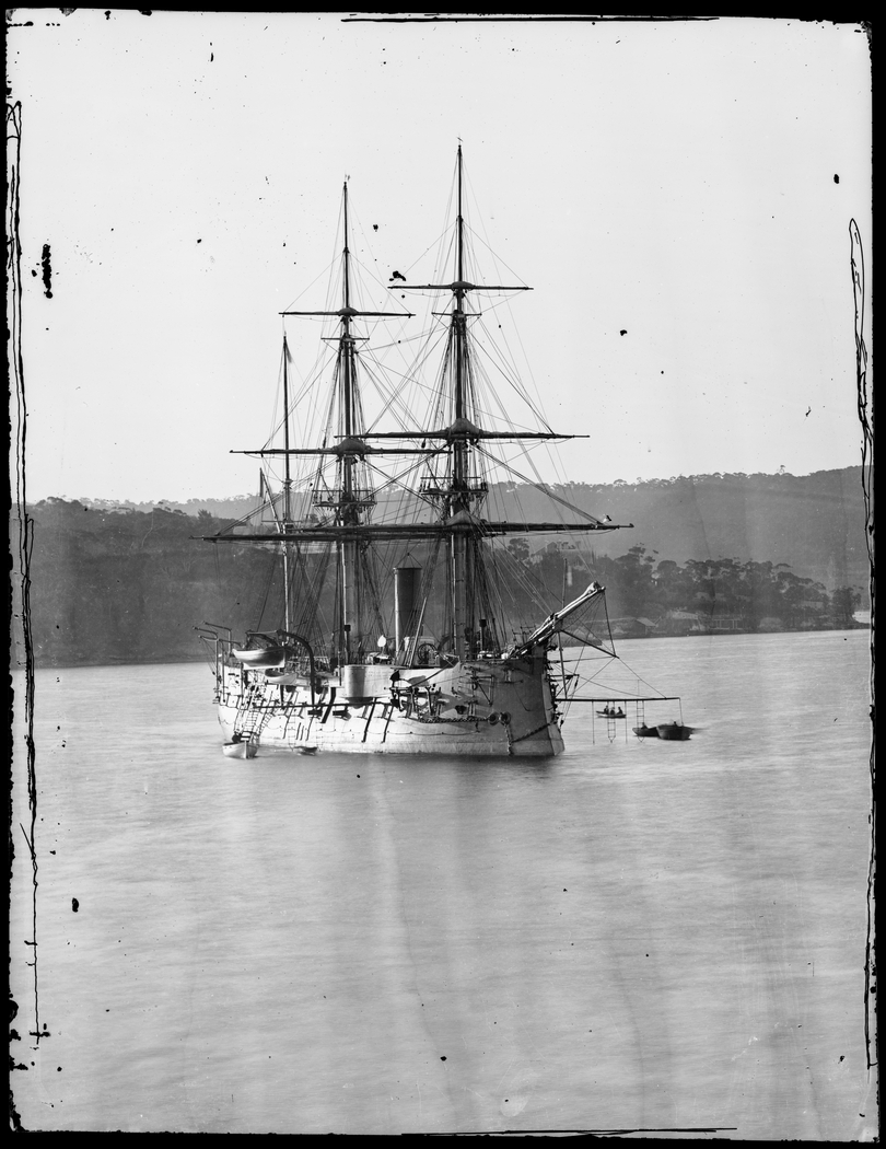 Photograph of the French warship 'Atalante' in Sydney Harbour taken in August 1873